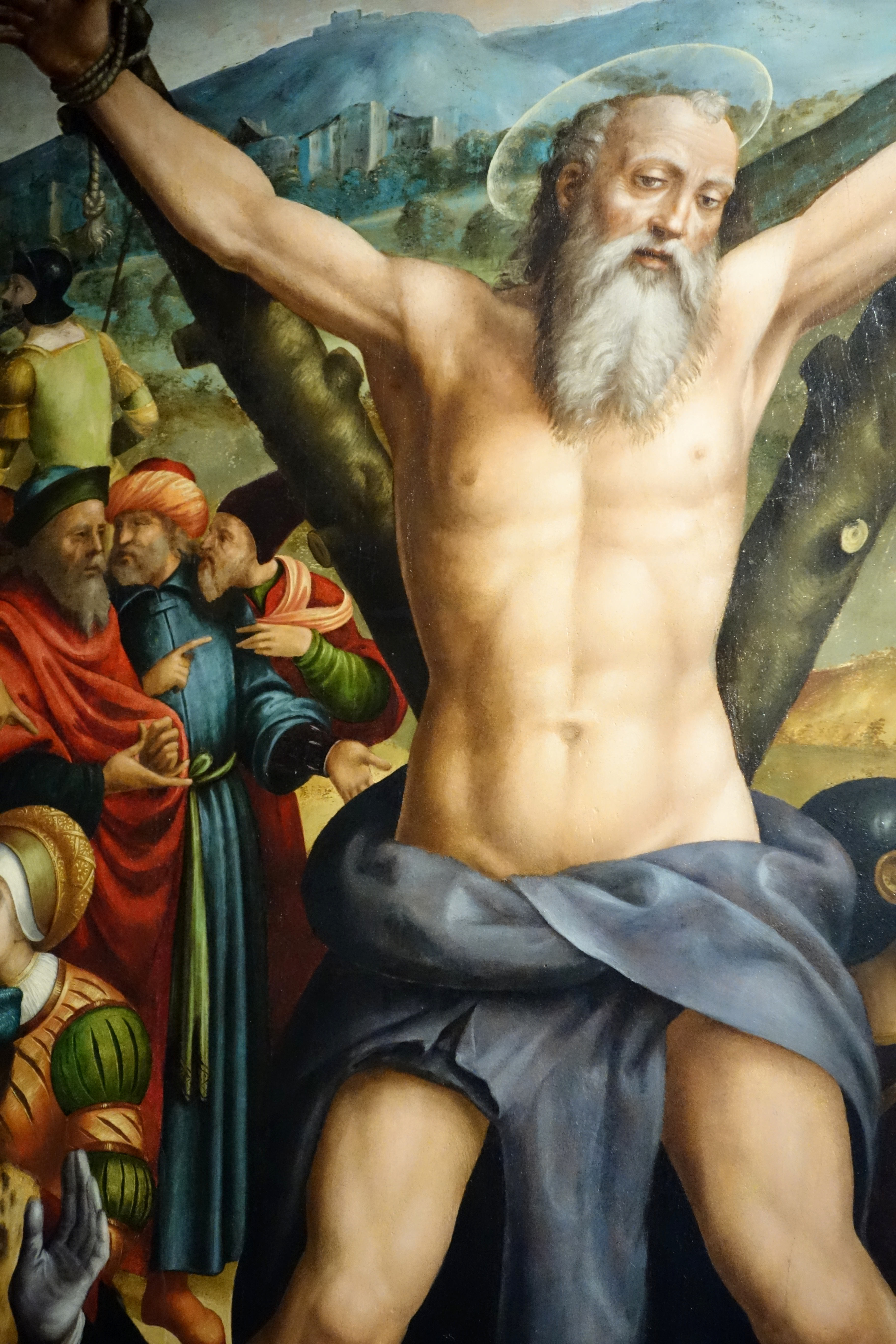 Exhibit in Museo Diocesano, Via Tommaso Reggio, 20 r, Genoa, Italy. All artwork in this museum is old enough so that it is in the public domain.